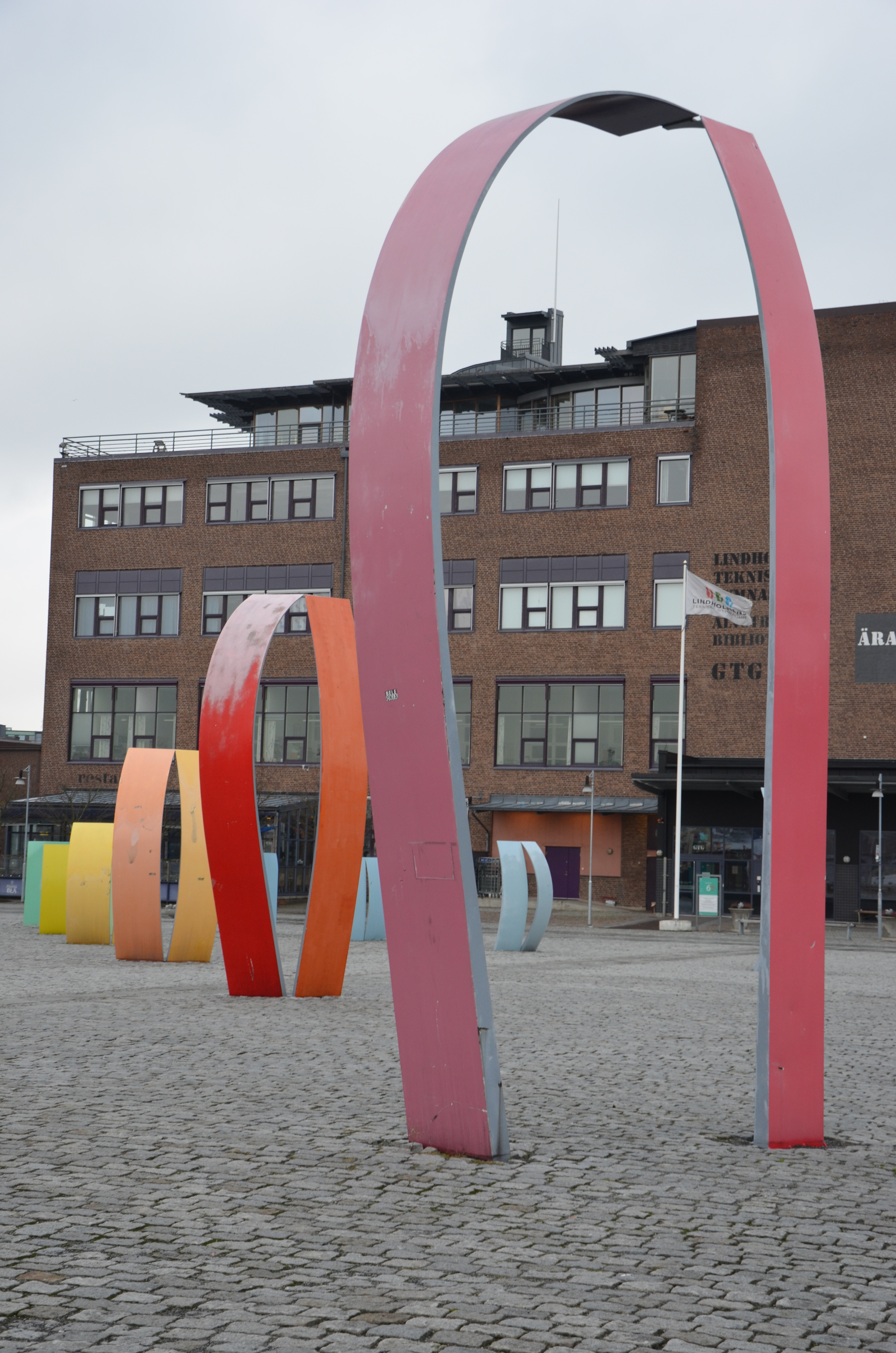 Gert Marcus Di-edersekvensen på Lindholmenkajen i Göteborg, 1994